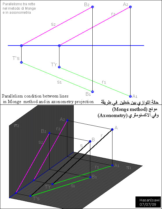 Parallelism condition between lines in Monge method and in axonometry projection